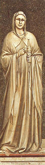 Life of Christ